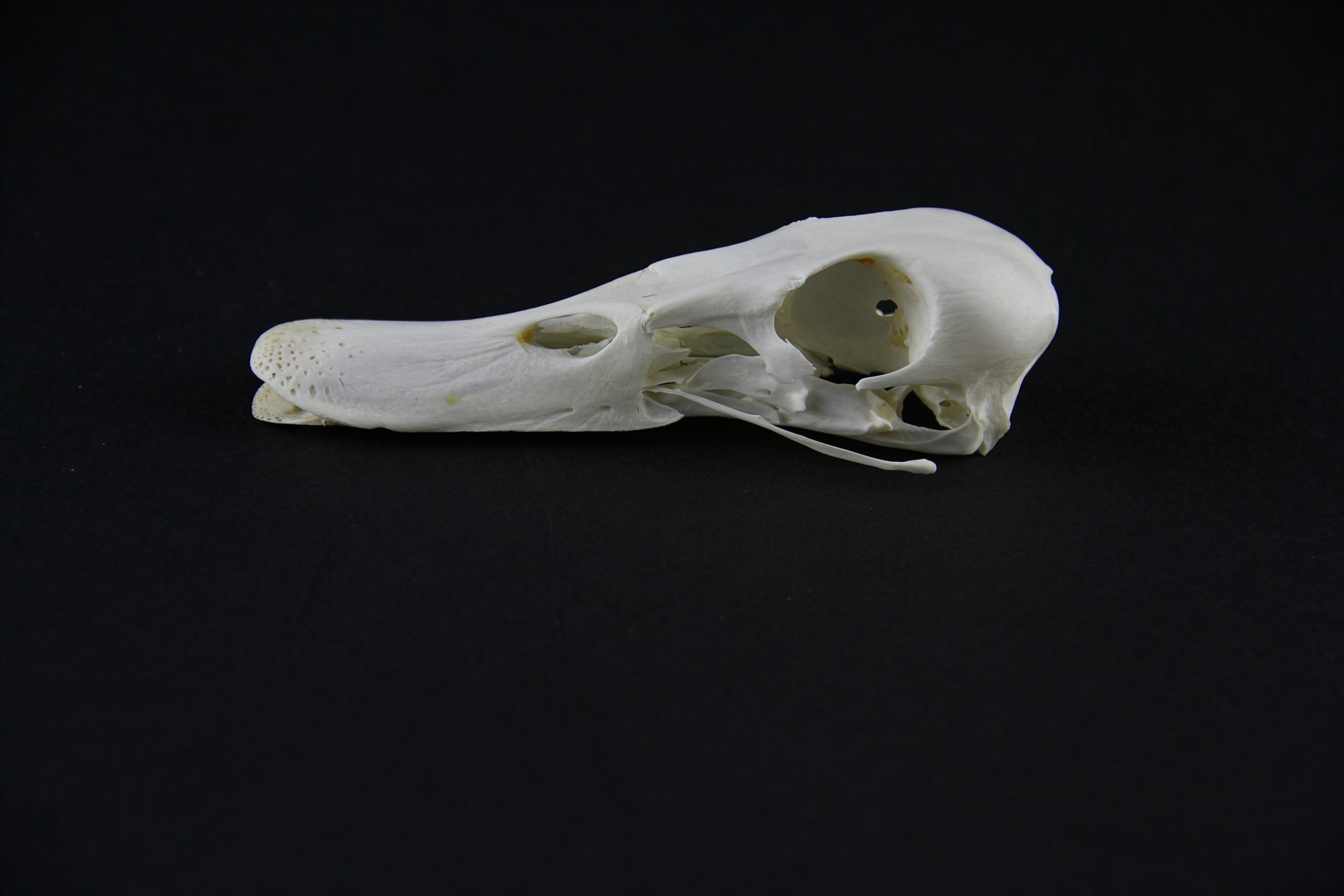 Specimen of the anatidae family, lateral view of skull